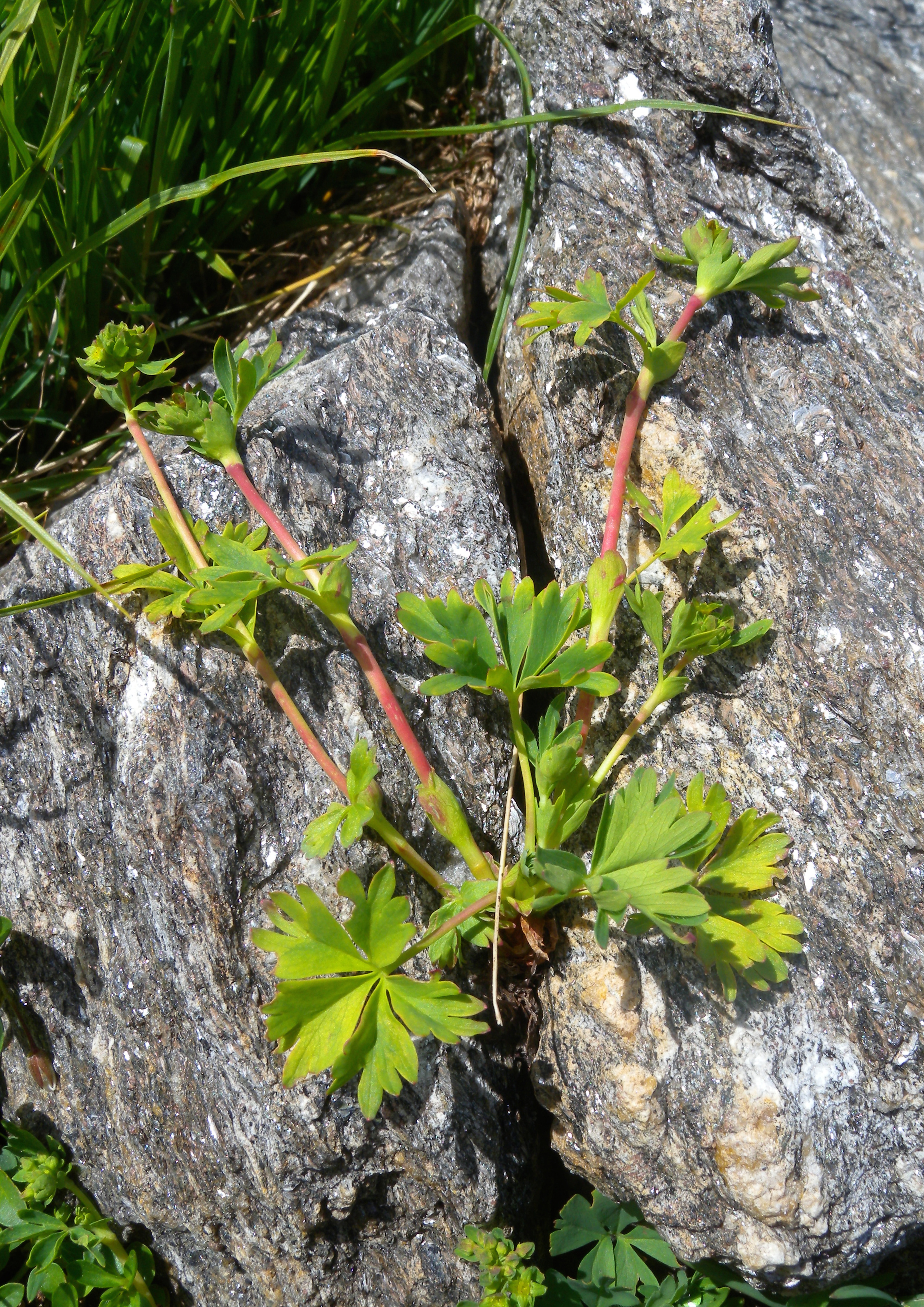 Alchemilla pentaphyllea (Rosaceae); Nufenenpass, Canton of Valais, Switzerland